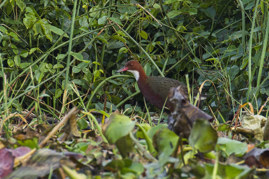 White-throated Rail - Masoala - Madagascar_MG_0548